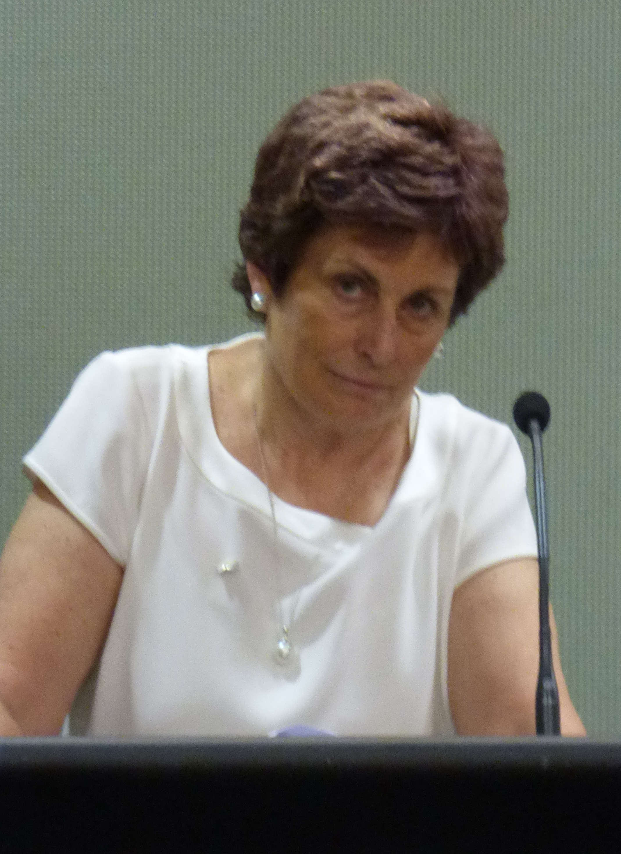 South Australia's Chief Scientist Dr Leanna Read speaks in Adelaide, January 2017